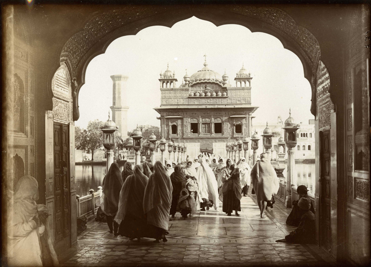 "Entrance to the Golden Temple, Amritsar, India". Photograph taken by Herbert Ponting (1870-1935).